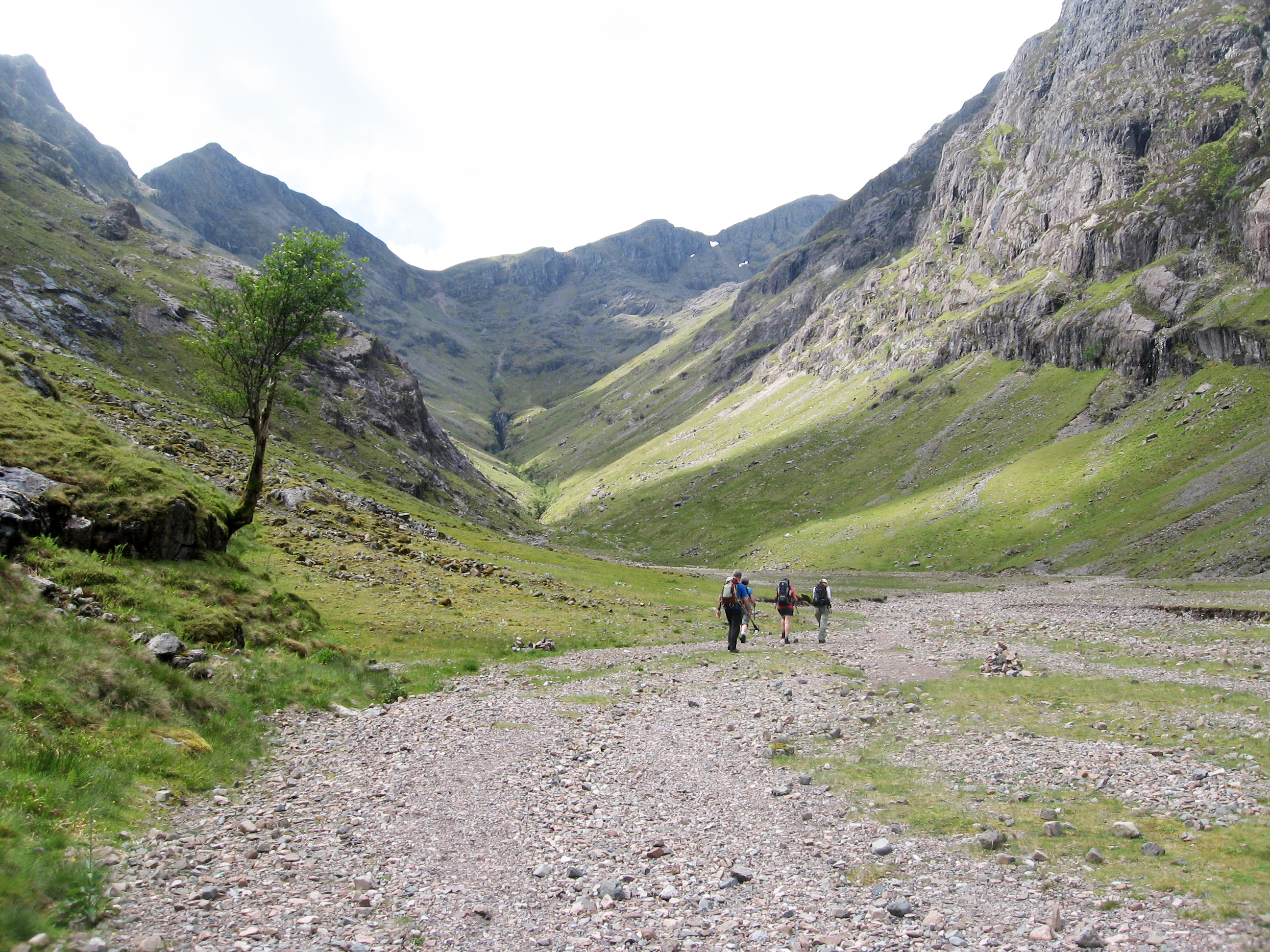 Coire Gabhail, the Lost Valley of Bidean nam Bian in Glen Coe. View up to the ridge access at Bealach Dearg, with the peak of Stob Coire Sgreamhach to the left of centre.